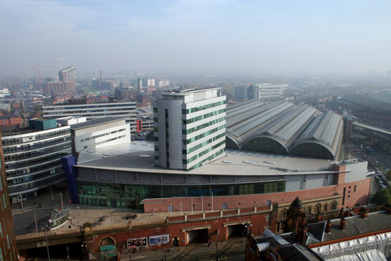 Piccadilly Station Manchester Store Street Station opened in 1842 as the terminus of the Manchester and Birmingham Railway. As the rail network expanded it became London Road Station in 1849. It was rebuilt and became Manchester Piccadilly in 1960 for the new London Midland Region electric service to London. The two openings visible at the bottom centre of the photograph are for the Manchester Metrolink trams which went into service in 1992. The station was extensively modified for the 2002 Commonwealth Games.